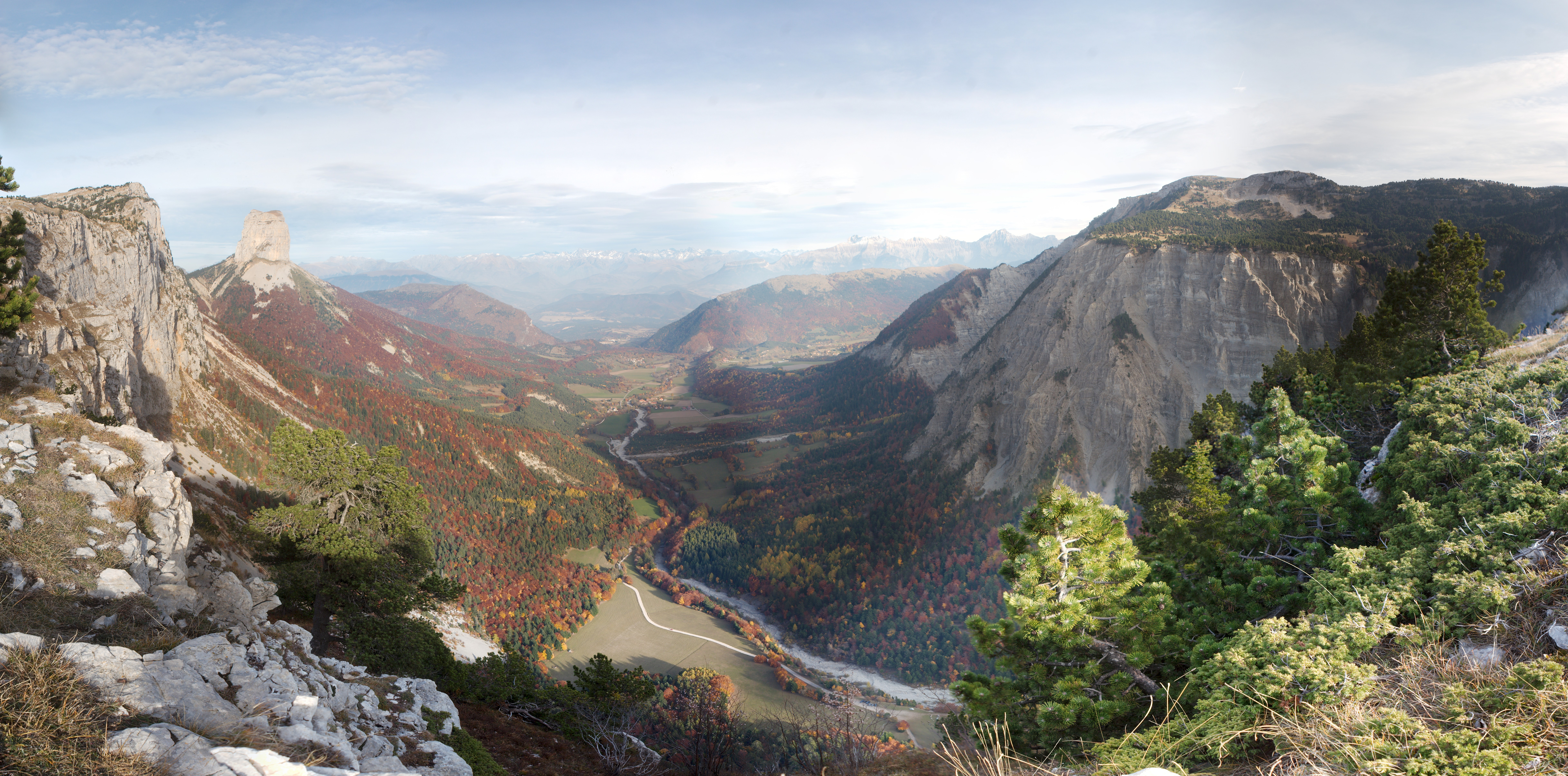 The Trièves seen from the Vercors high plateaux.